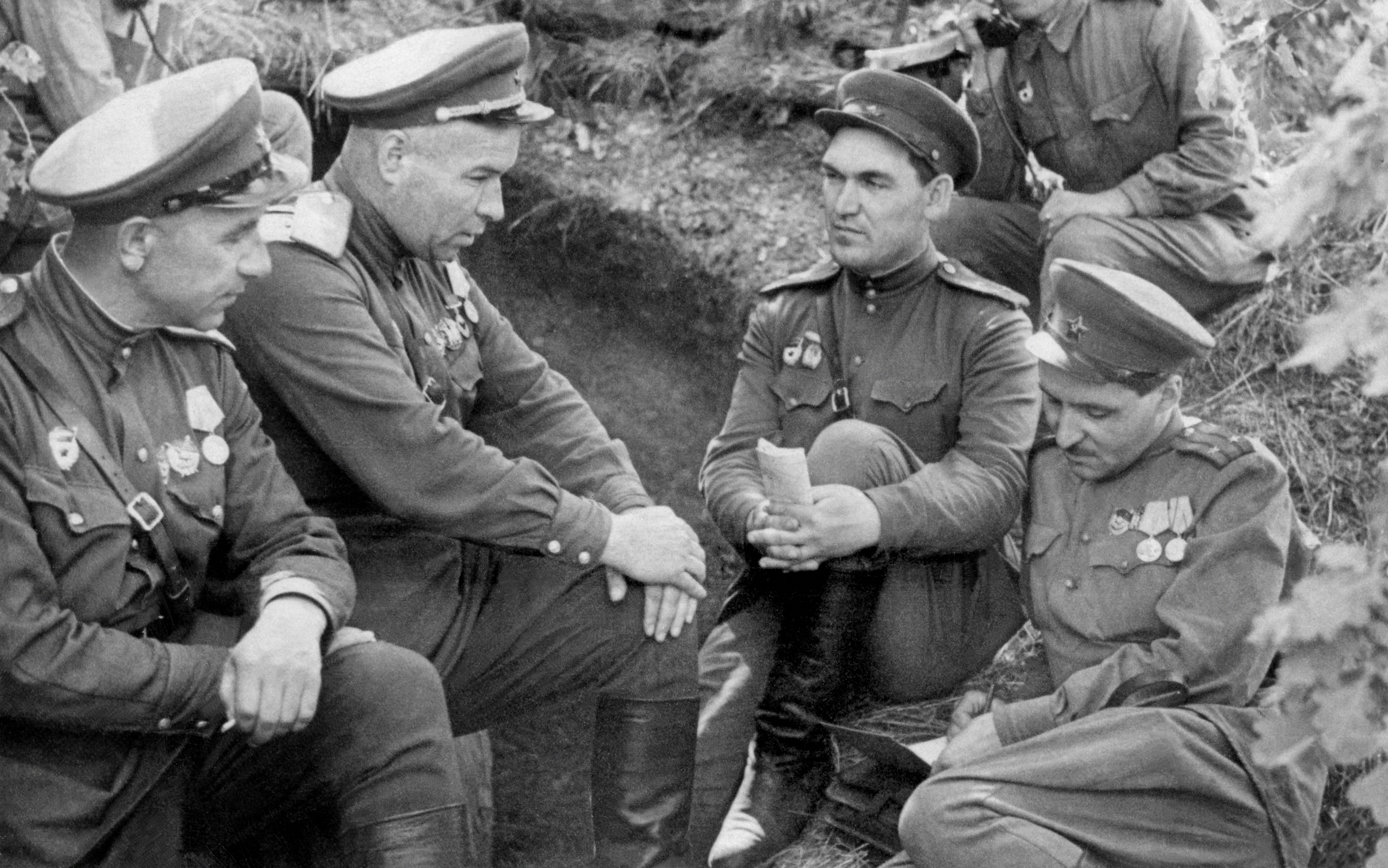 V.A.Gorishny_Ilya Vlasenko_ Konstantin Simonov_A.V,Mukhin near Ponyri. Battle of Kursk. 1943